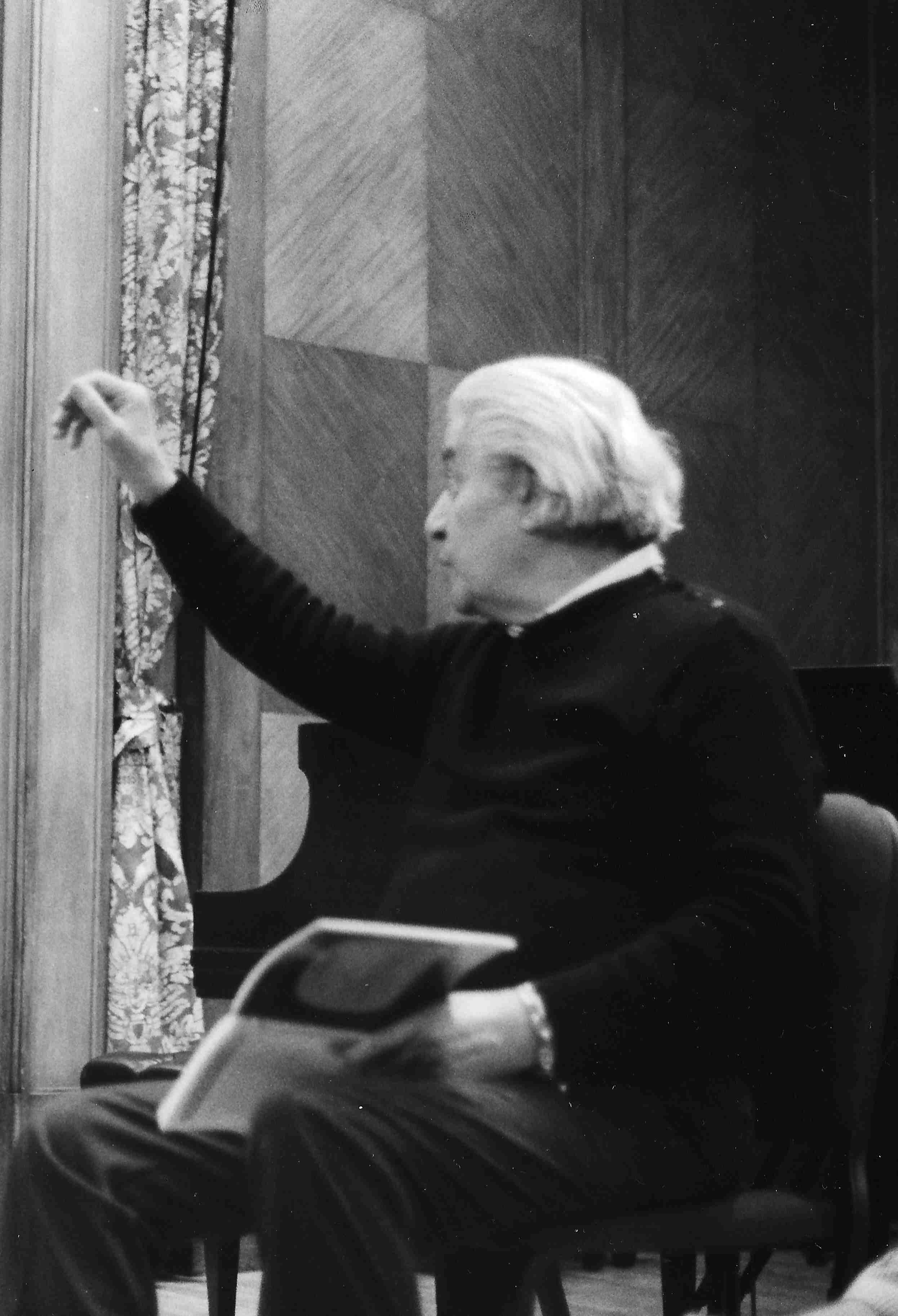 Sergiu Celibidache giving a conducting lesson at The Curtis Institute in 1984 to David Bernard